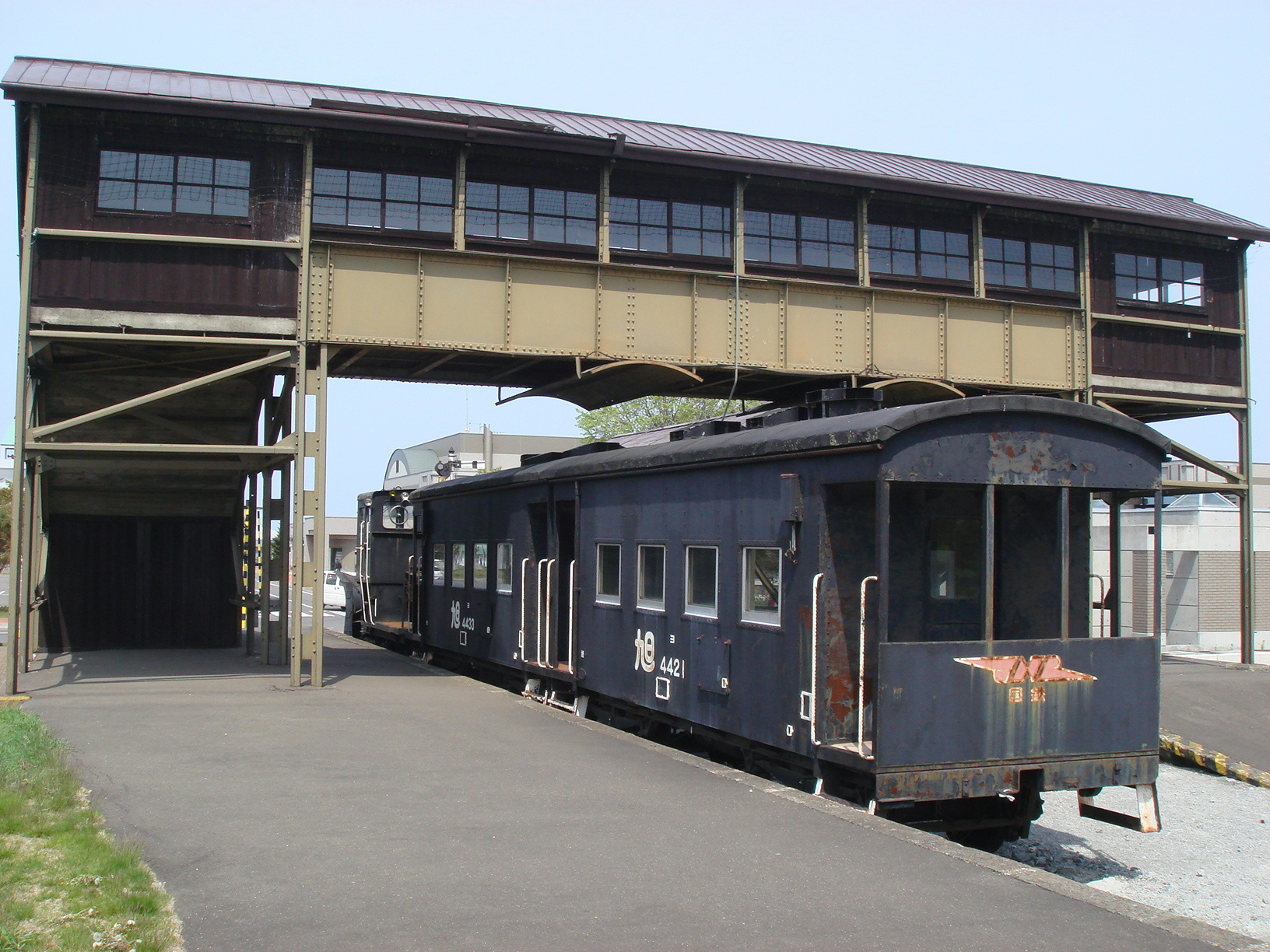 Naka-Yubetsu Station ruin at Michinoeki (Roadside Station) Kamiyubetsu Onsen Tulip no Yu in Yubetsu Town, Hokkaido, Japan